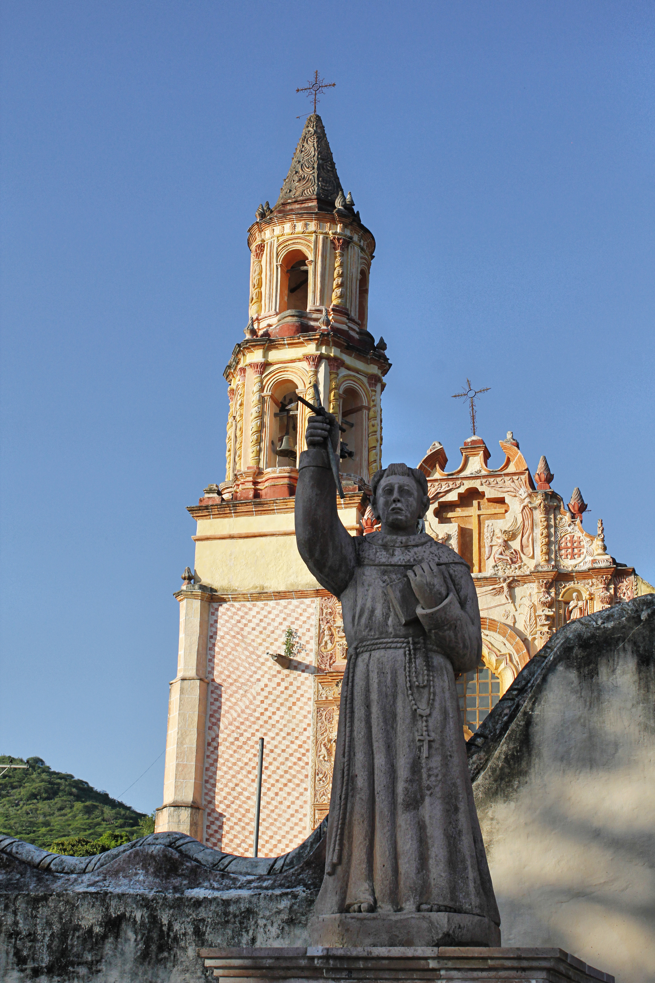 Misión franciscana, Tancoyol. Querétaro